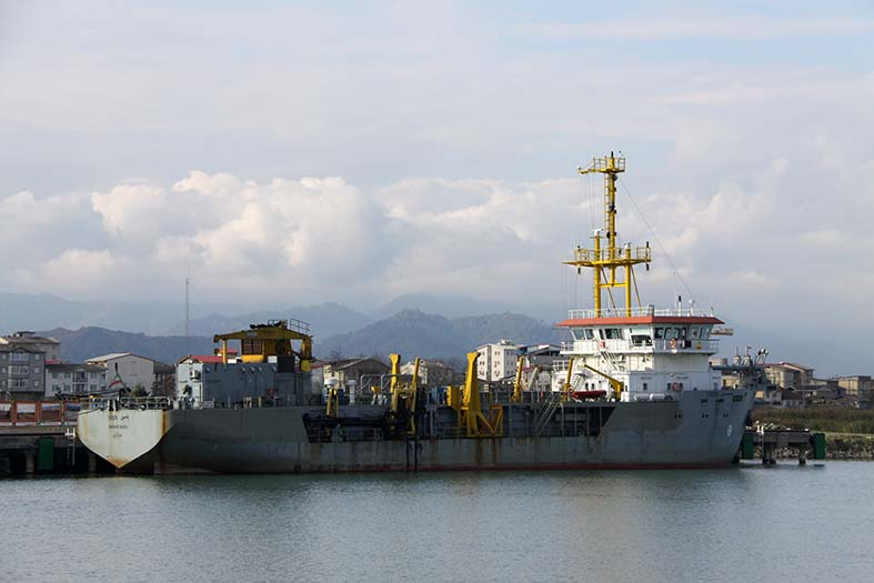 A ship Dredging docked in Port Astara